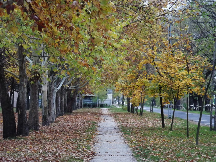 Walkway to South gate of the stadium